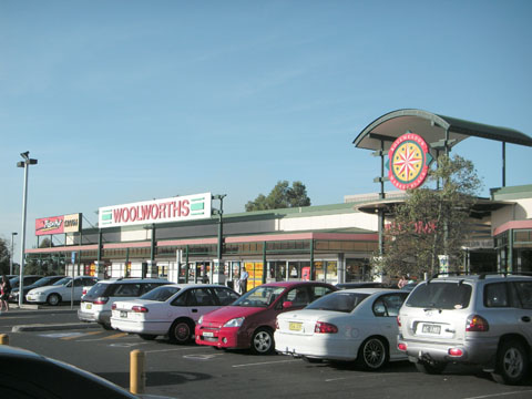 Shopping centre in Rosemeadow, NSW